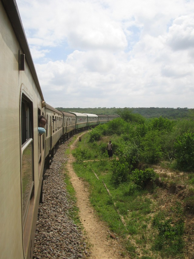 Mombasa - Nairobi train on the Uganda Railway.